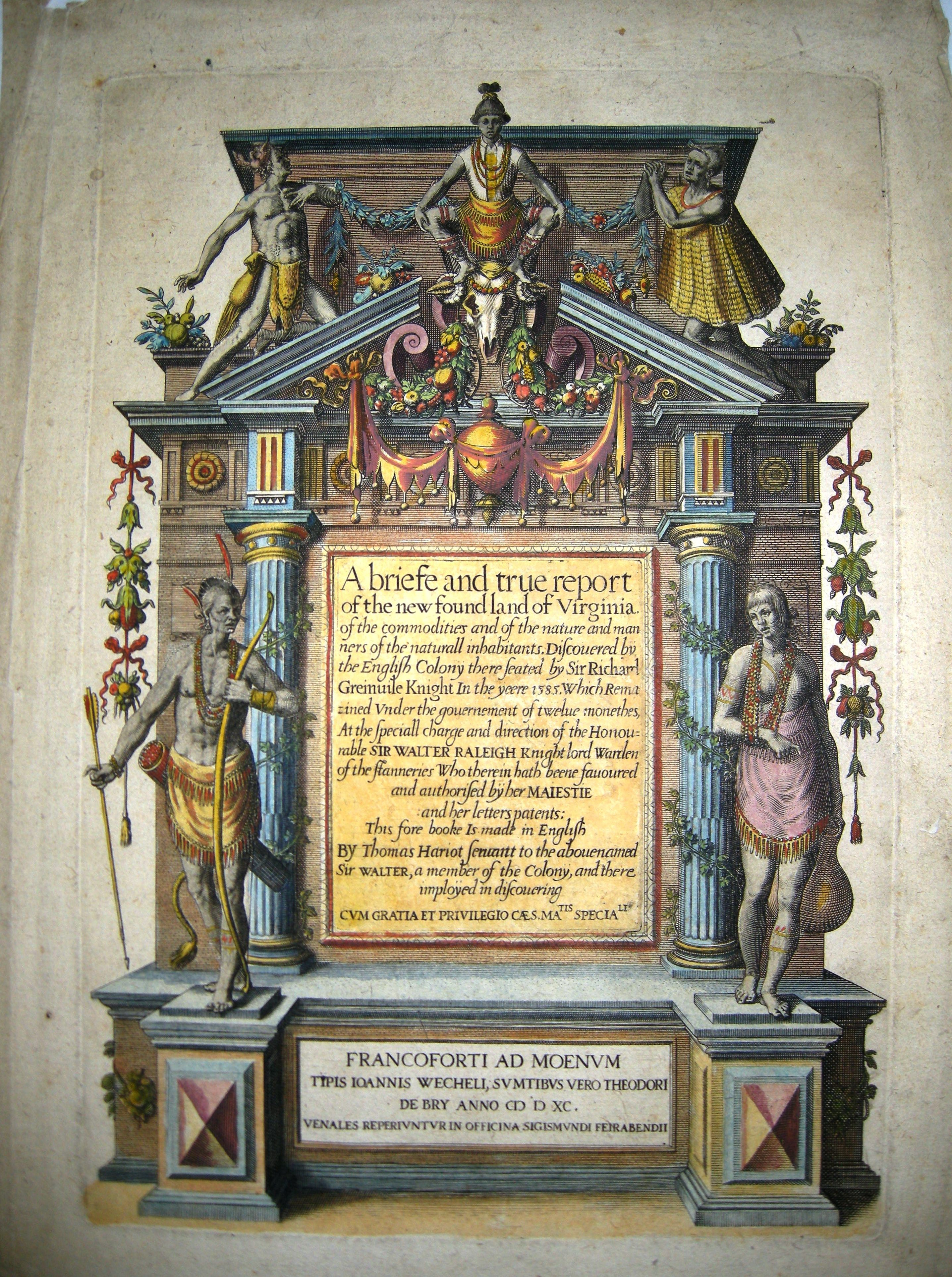 This title page which I personally own is from the only English edition (year 1590) of Theodor de Bry's volume describing Sir Walter Raleigh's attempt to colonise the new world (the outer banks of North Carolina)